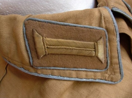 Stützpunktleiter